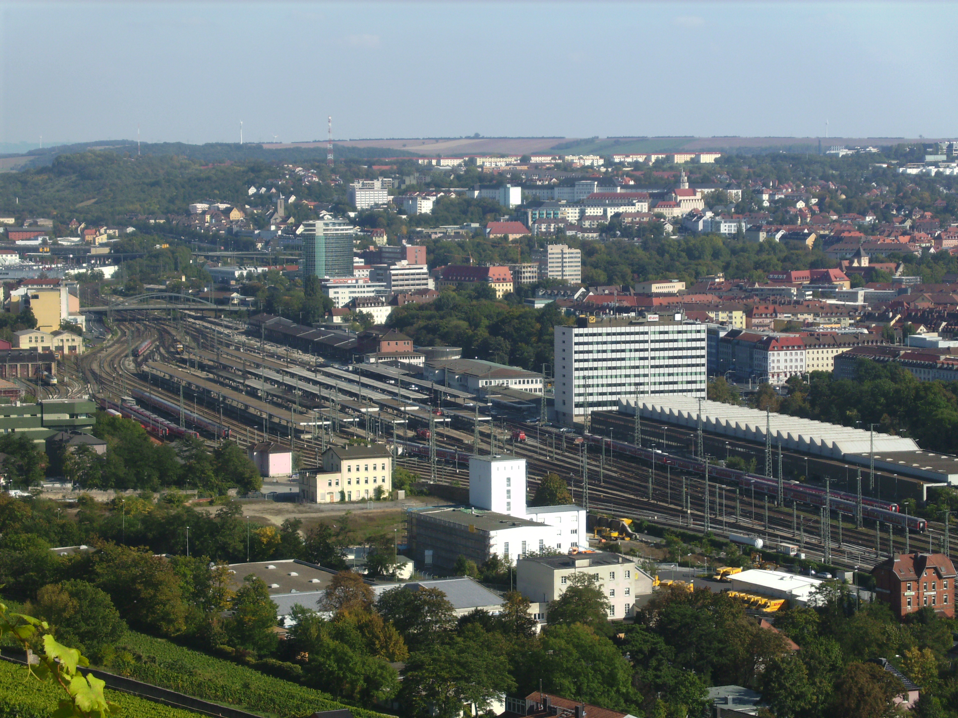 View over the track area of Würzburg main station